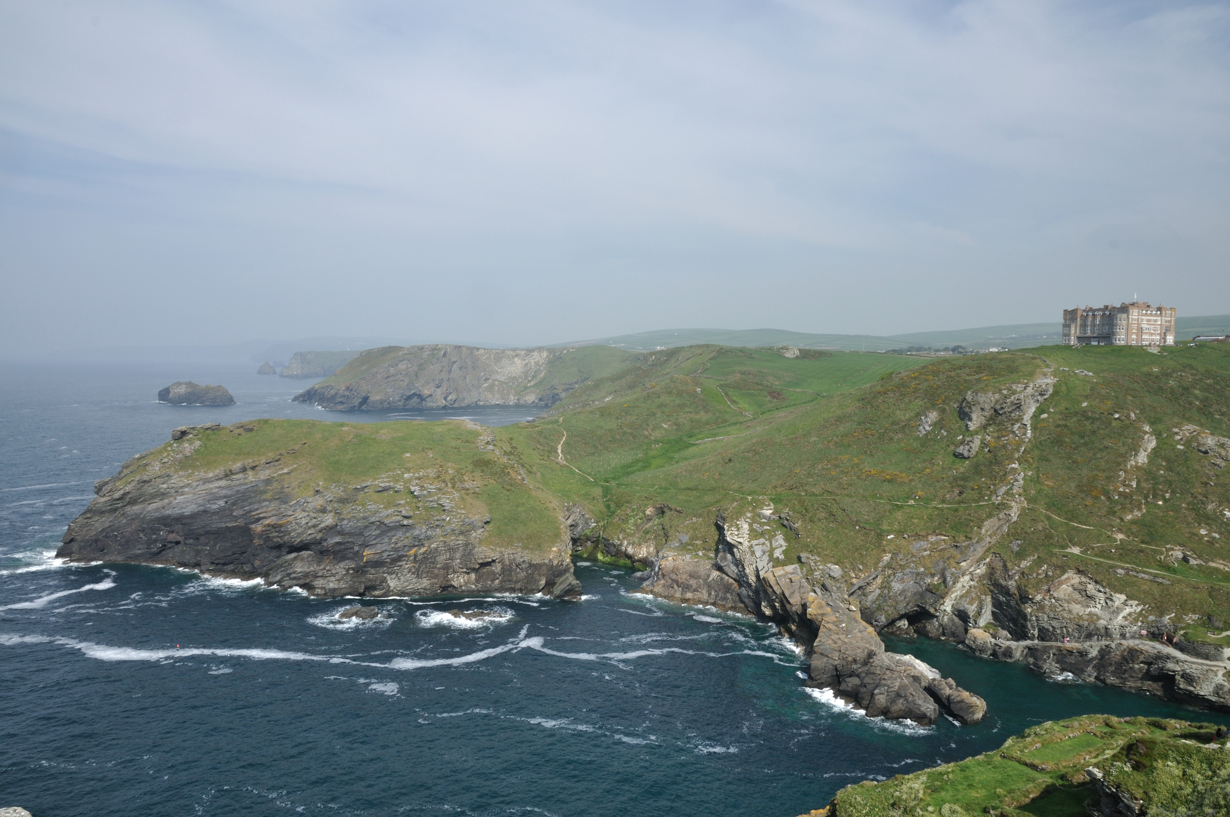 View from Tintagel Castle, on the right side the Camelot Castle Hotel, England